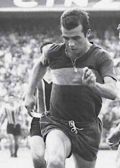 Almir while playing for Argentinian side Boca Juniors.